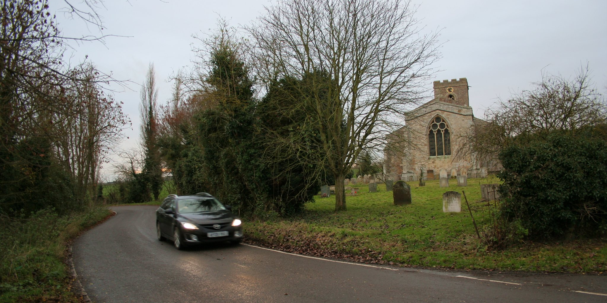 Dry Drayton church in December 2013.